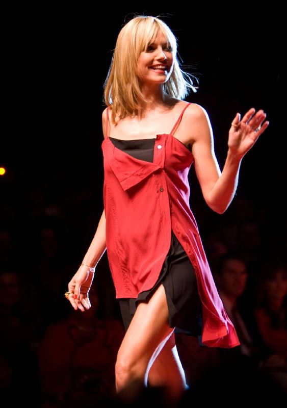 Heidi Klum modeling at the Red Dress Collection charity fashion show to benefit The Heart Truth. Identity confirmed through image gallery at (a gallery of professional photos of the same event that has the models identified).